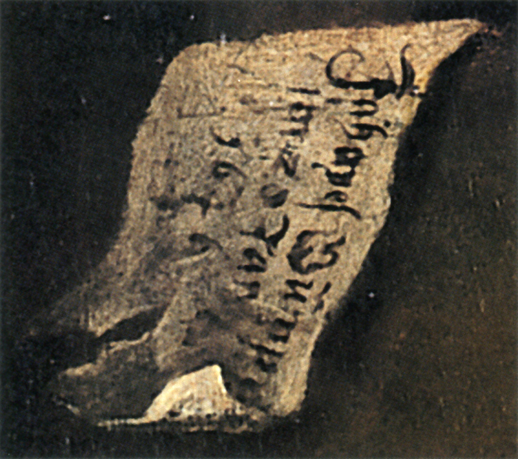 detail showing inscription